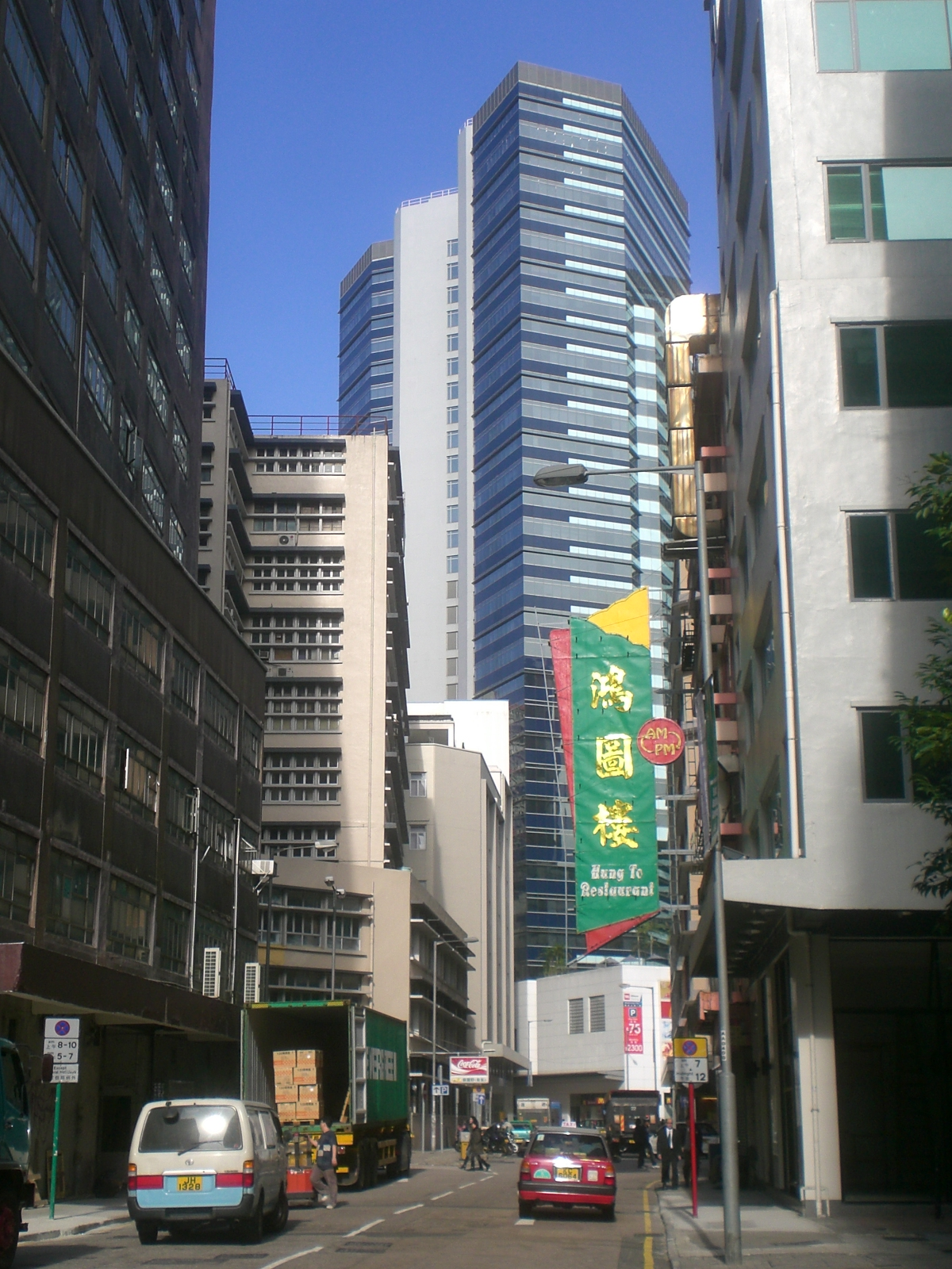 觀塘